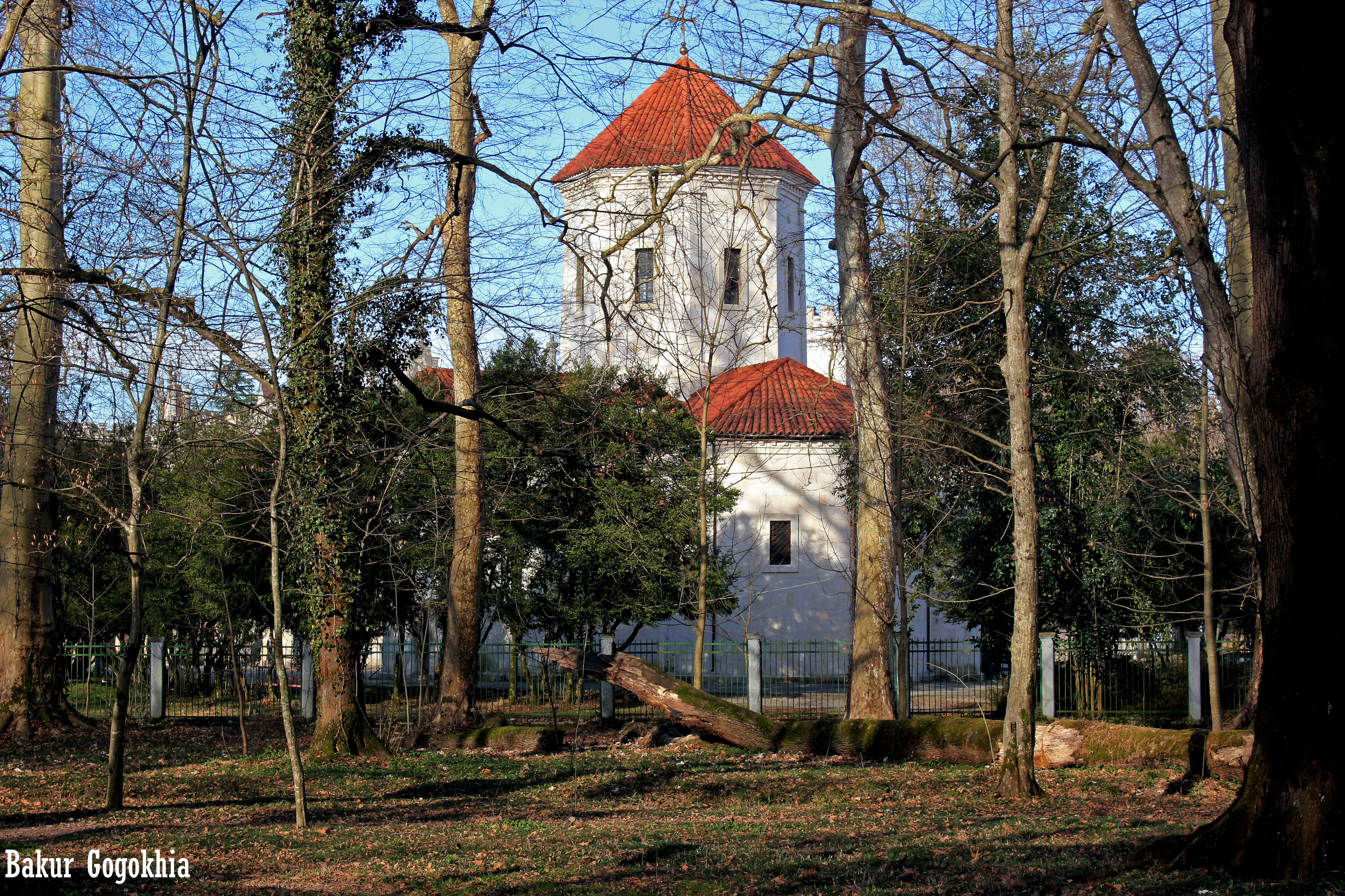 Zugdidi Church, Megrelia, Georgia